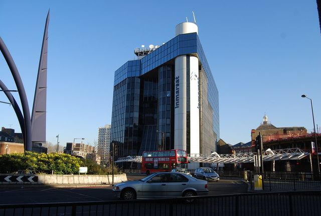 Inmarsat, Old St Large commercial office block by this busy roundabout